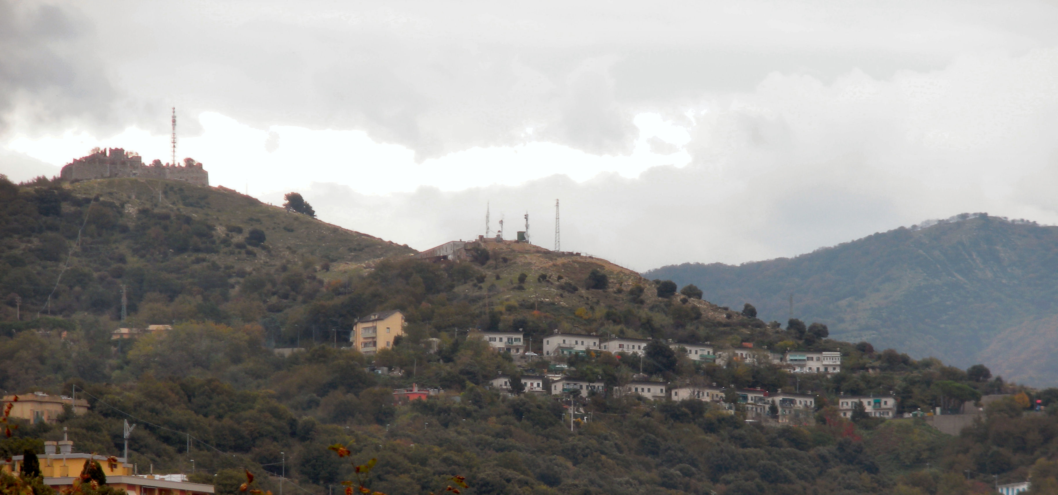 Genoa, Italy, view of Camaldoli (quarter of San Fruttuoso)